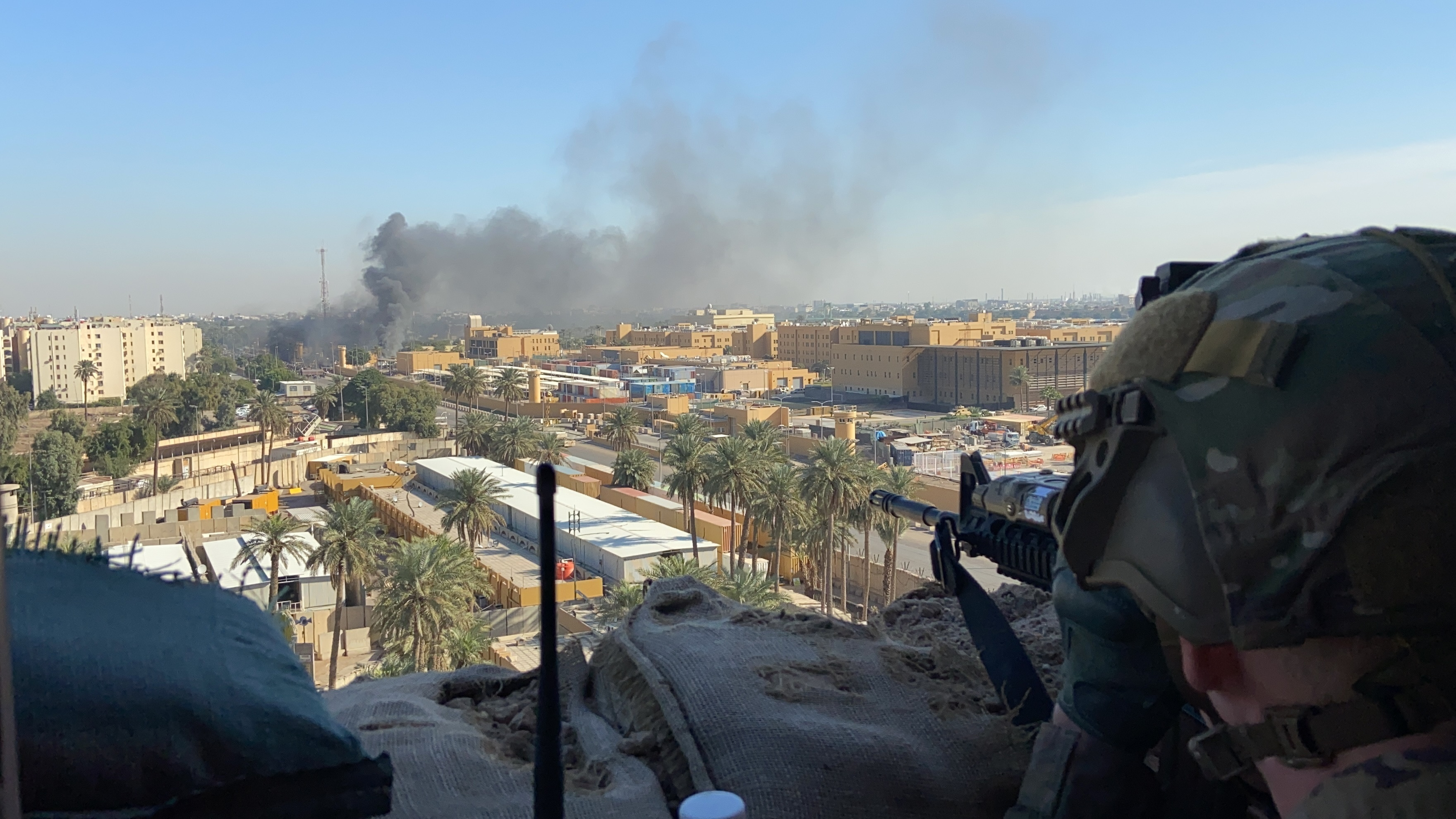 A U.S. Army Soldier from 1st Brigade, 25th Infantry Division, Task Force-Iraq, mans an observation post at Forward Operating Base Union III, Baghdad, Iraq, Dec. 31, 2019. (U.S. Army Photo by Maj. Charlie Dietz, Task Force-Iraq Public Affairs)